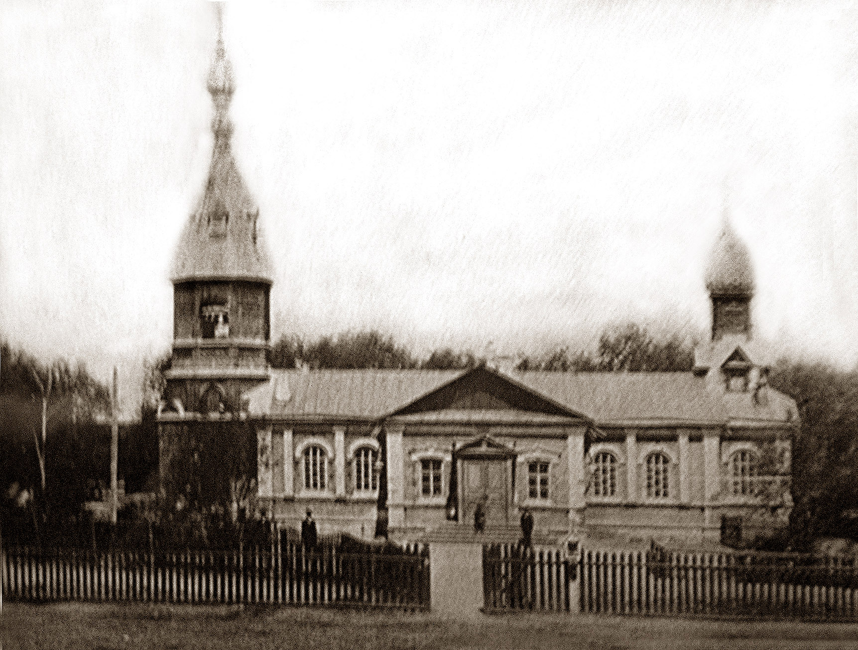 Church of sacred prince Alexander Nevsky (Rtishchevo, 1898)